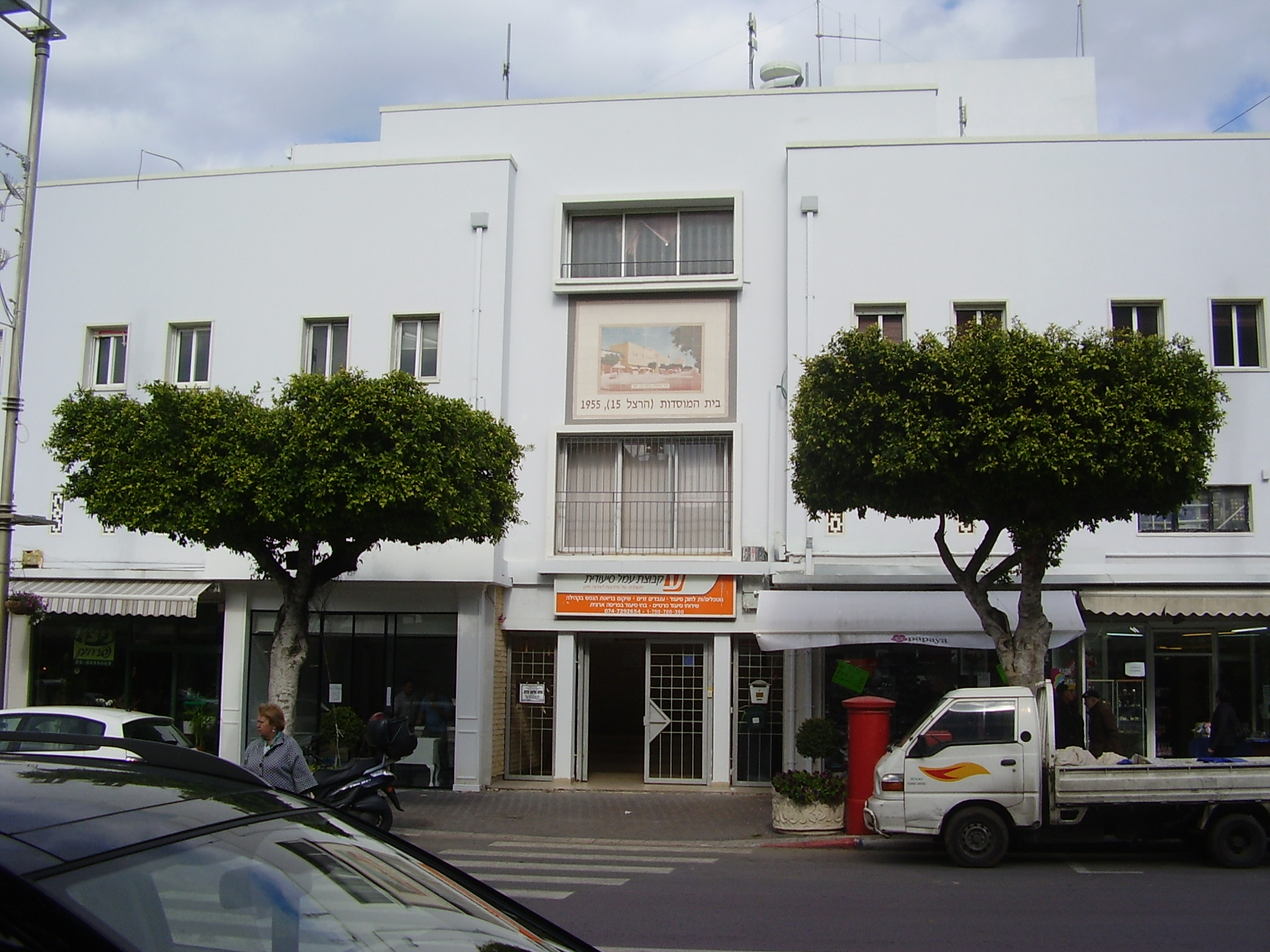 institutes building in netanya